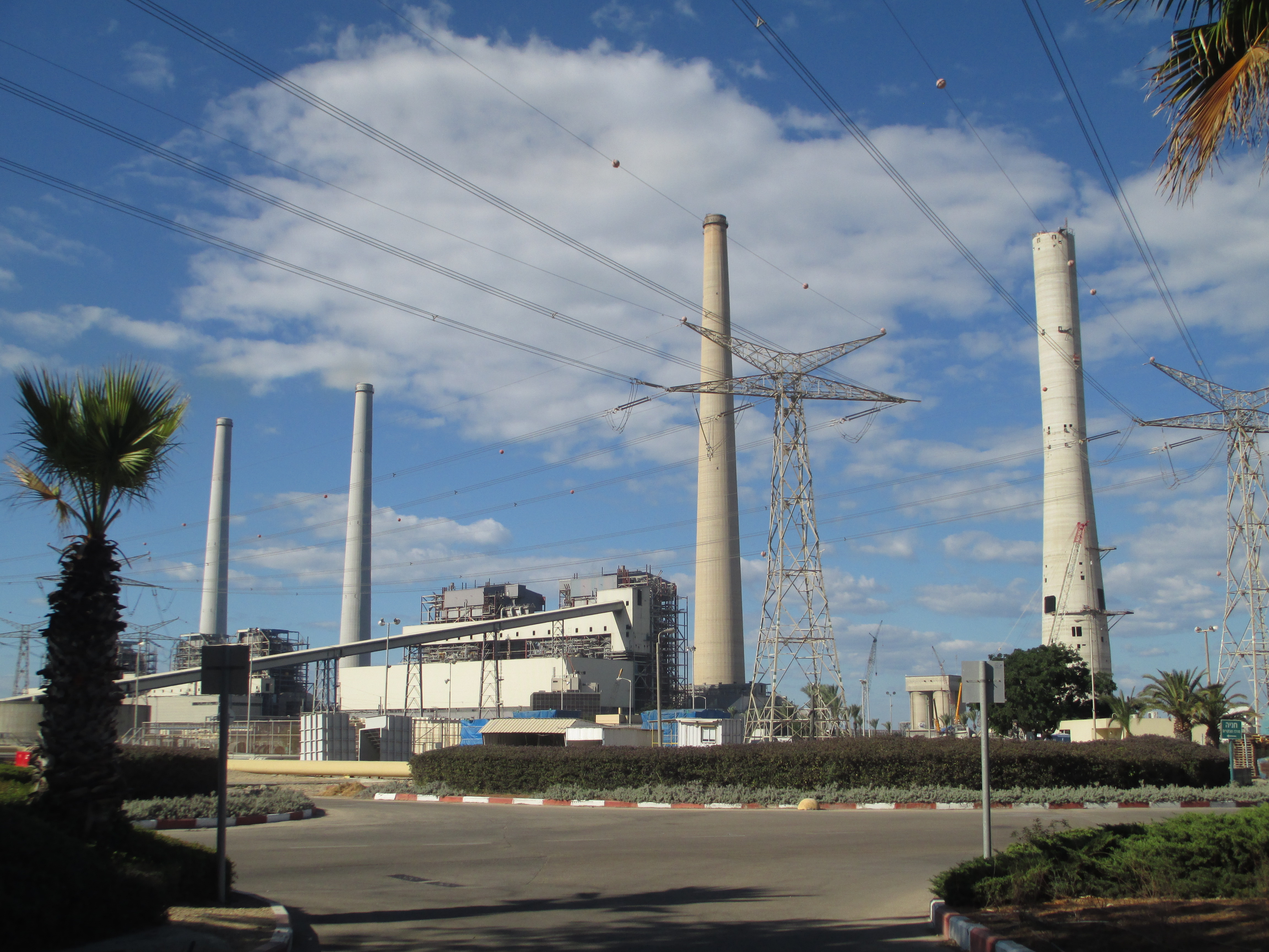 Orot Rabin Power Station